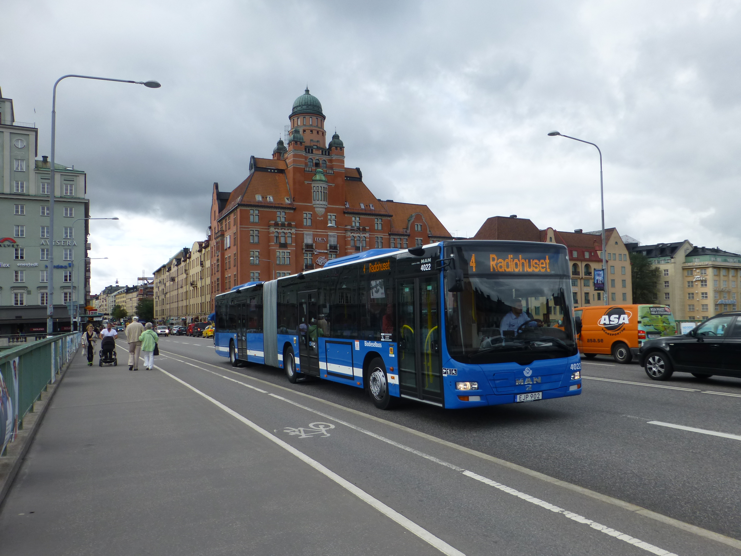 SL bus line 4 on Sankt Eriksbron in Stockholm.